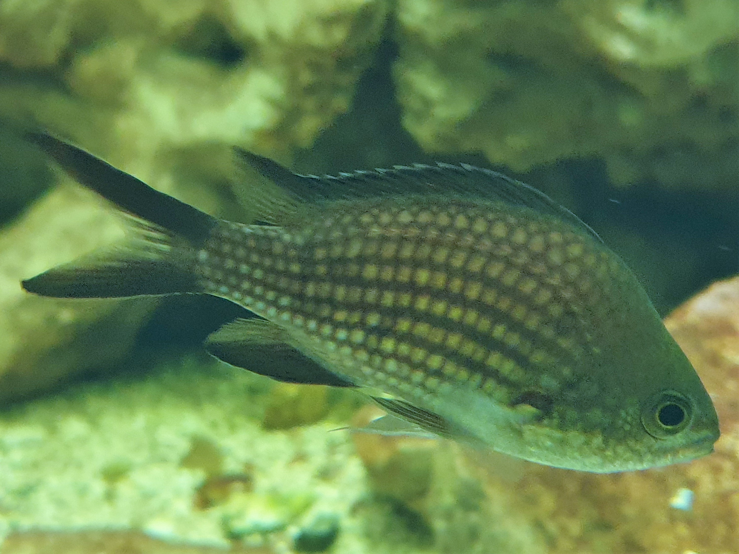 Damselfish or Mediterranean chromis (Chromis chromis) at the Bodorka Balaton Aquarium in Balatonfüred, Hungary.